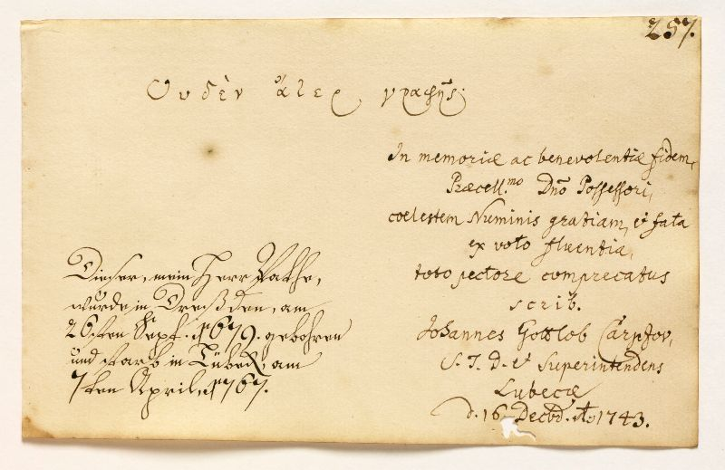 INscription of Johann Gottlob Carpzov in Album amicorum of Johann Friedrich Behrendt, 1743 December 16